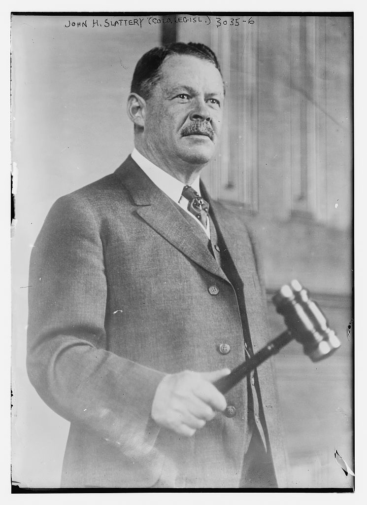 John H. Slattery (Colo. Legisl.) (LOC) Bain News Service,, publisher. John H. Slattery (Colo. Legisl.) in 1914 [between ca. 1910 and ca. 1915] 1 negative : glass ; 5 x 7 in. or smaller. Notes: Title from unverified data provided by the Bain News Service on the negatives or caption cards. Forms part of: George Grantham Bain Collection (Library of Congress). Format: Glass negatives. Repository: Library of Congress, Prints and Photographs Division, Washington, D.C. 20540 USA, General information about the Bain Collection is available at Persistent URL: Call Number: LC-B2- 3035-6